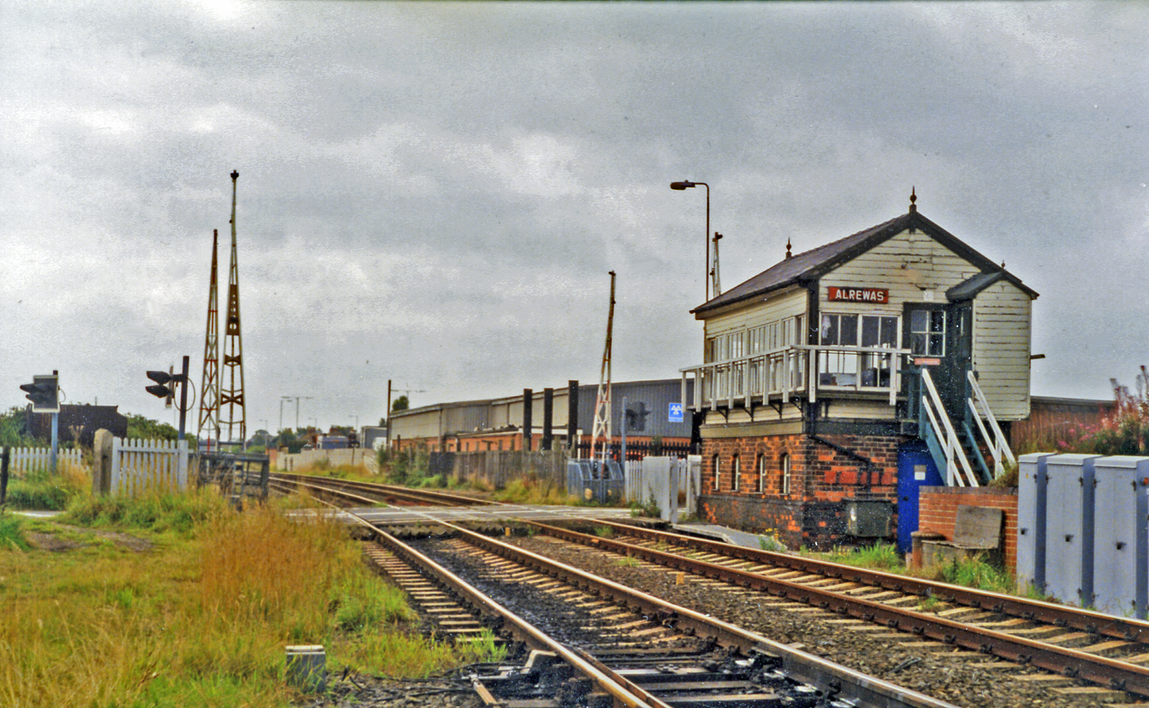 Alrewas station (site). View SW, towards Lichfield, Walsall and Birmingham (New Street): ex-LNW (South Staffordshire section) Birmingham/Walsall - Lichfield - Wichnor Junction - (Burton-on-Trent) line. The station was closed from 18/1/65 when the passenger service was cut back to Lichfield (Trent Valley) - to be electried later as the northern part of the Cross-City Line. The line remains open for freight.